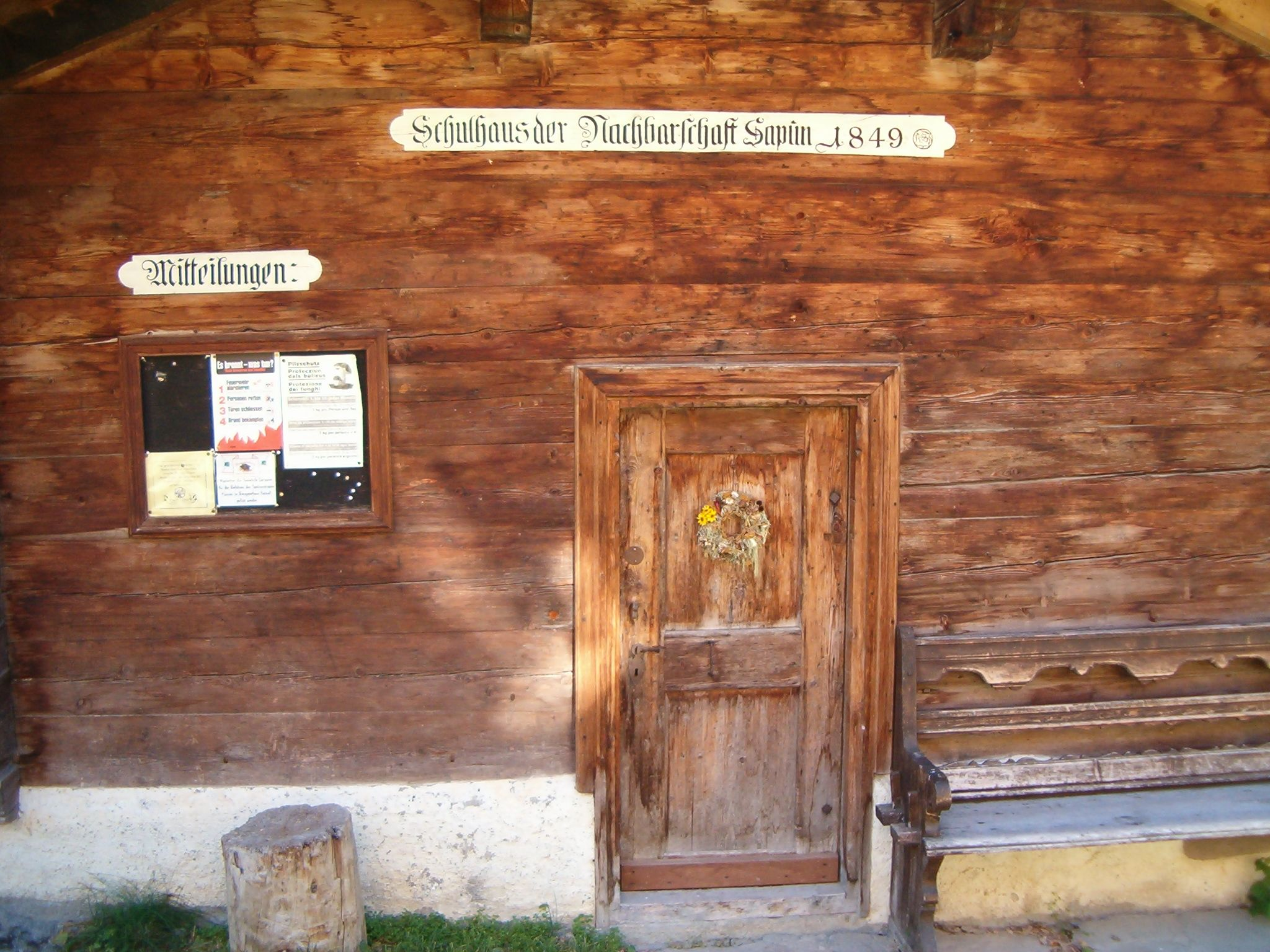 Schoolhouse at Sapuen, Langwies/Switzerland